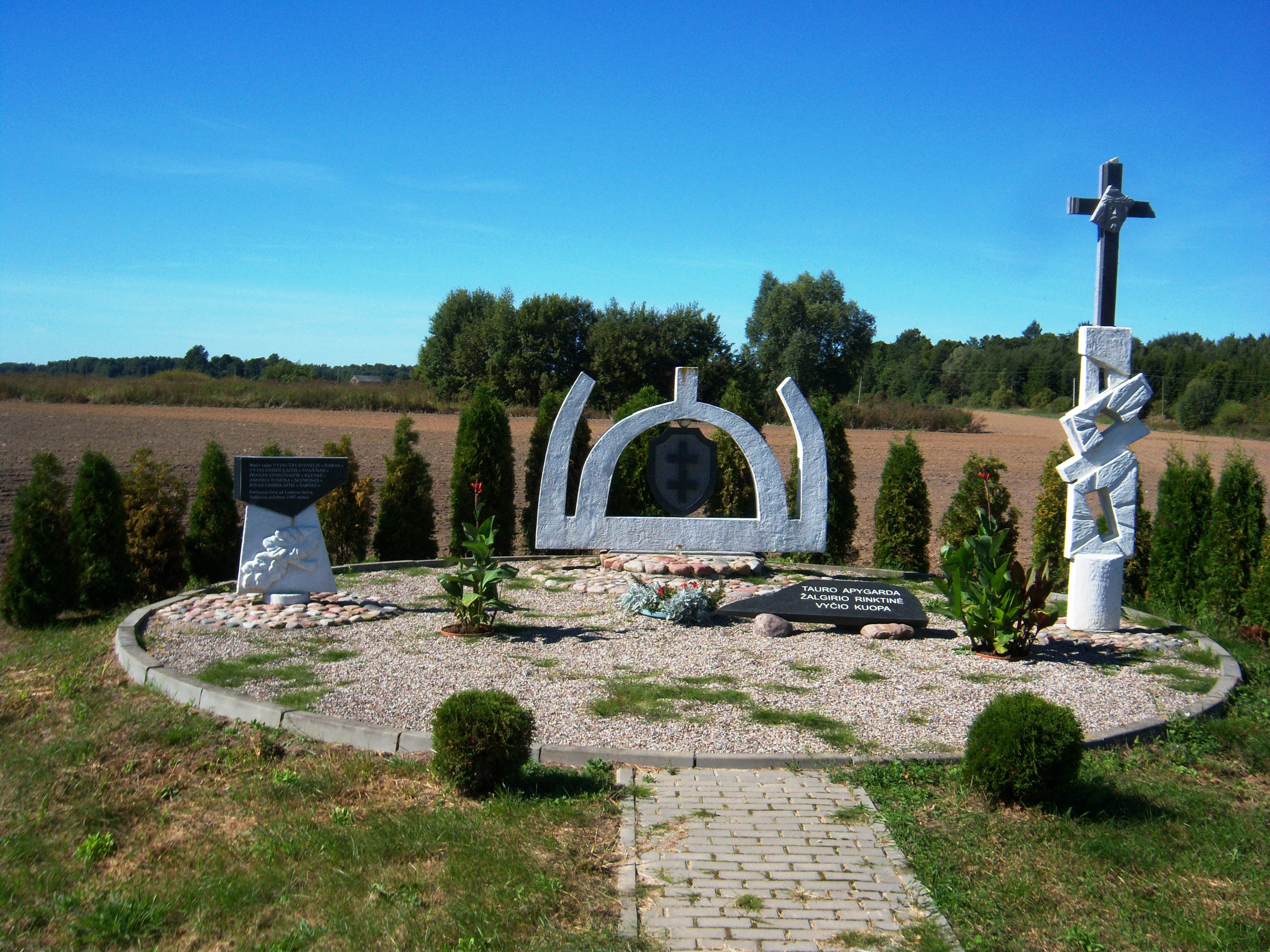 Memorial place for Tauras district partisans, near Griškabūdis, Šakiai District, Lithuania